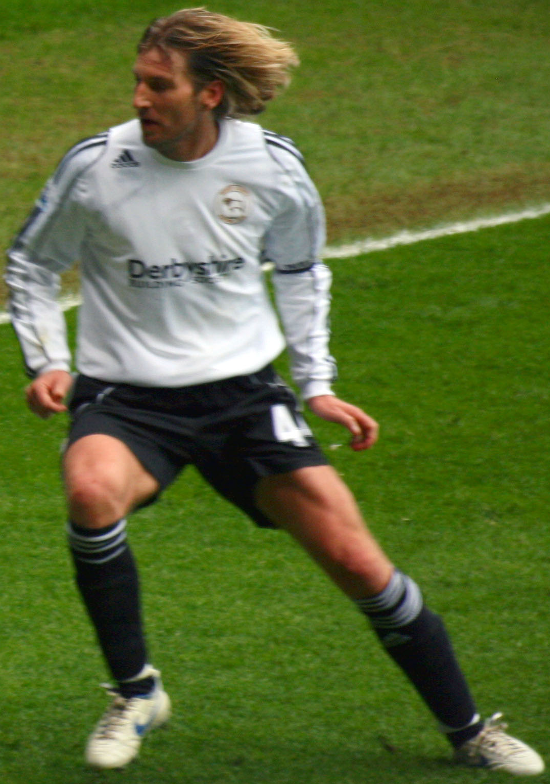 Robbie Savage. Image cropped from original at flickr.